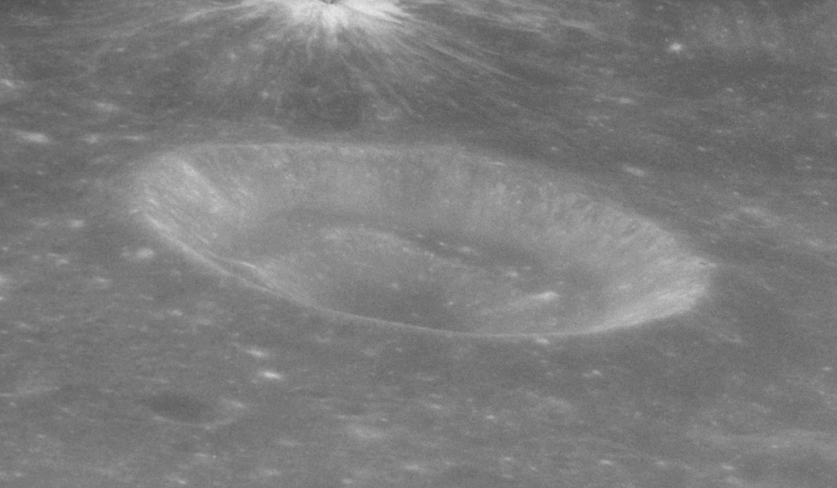 Oblique view of Leakey crater, on the moon.